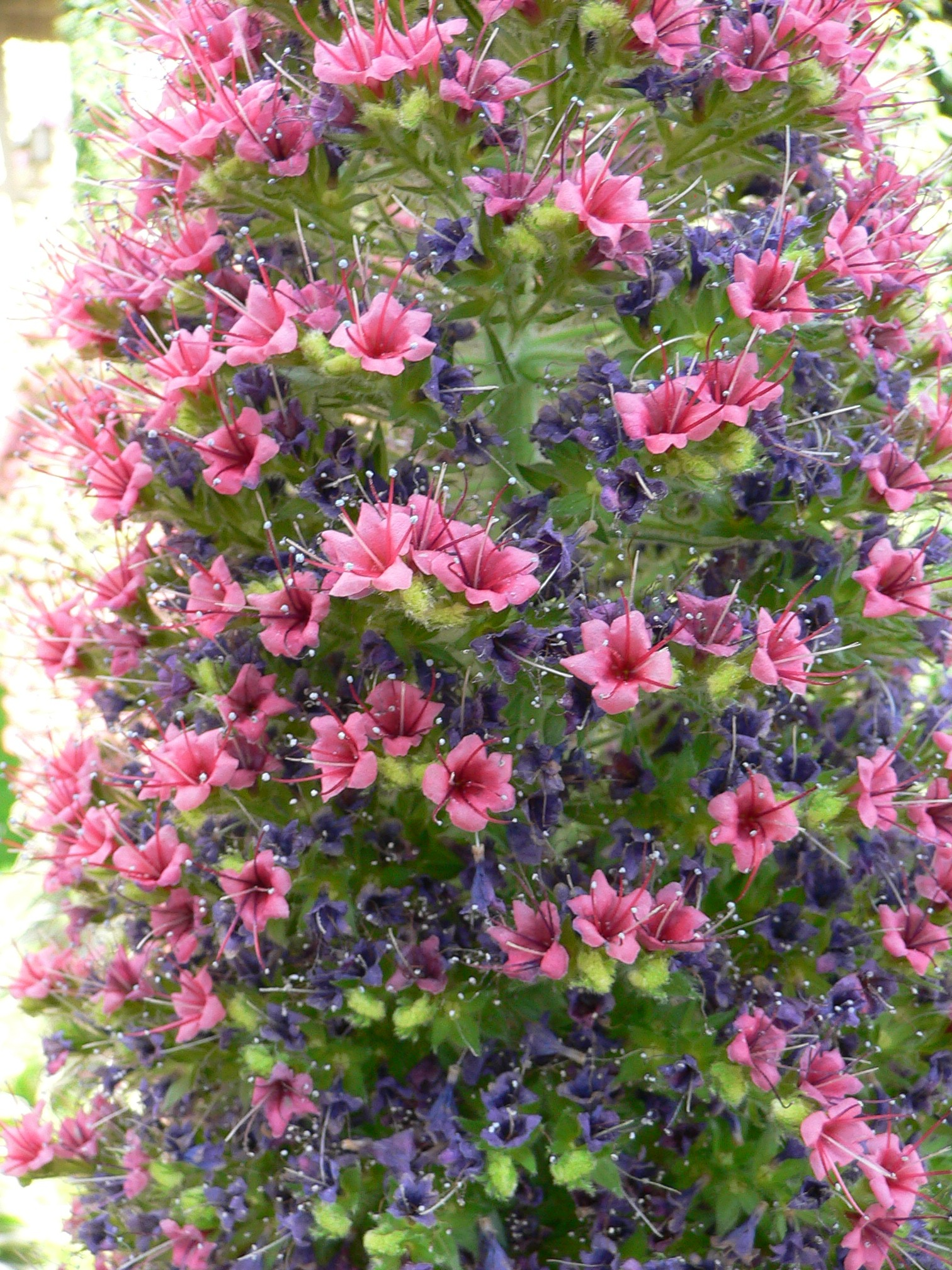 Pictures taken by myself at Longwood Gardens